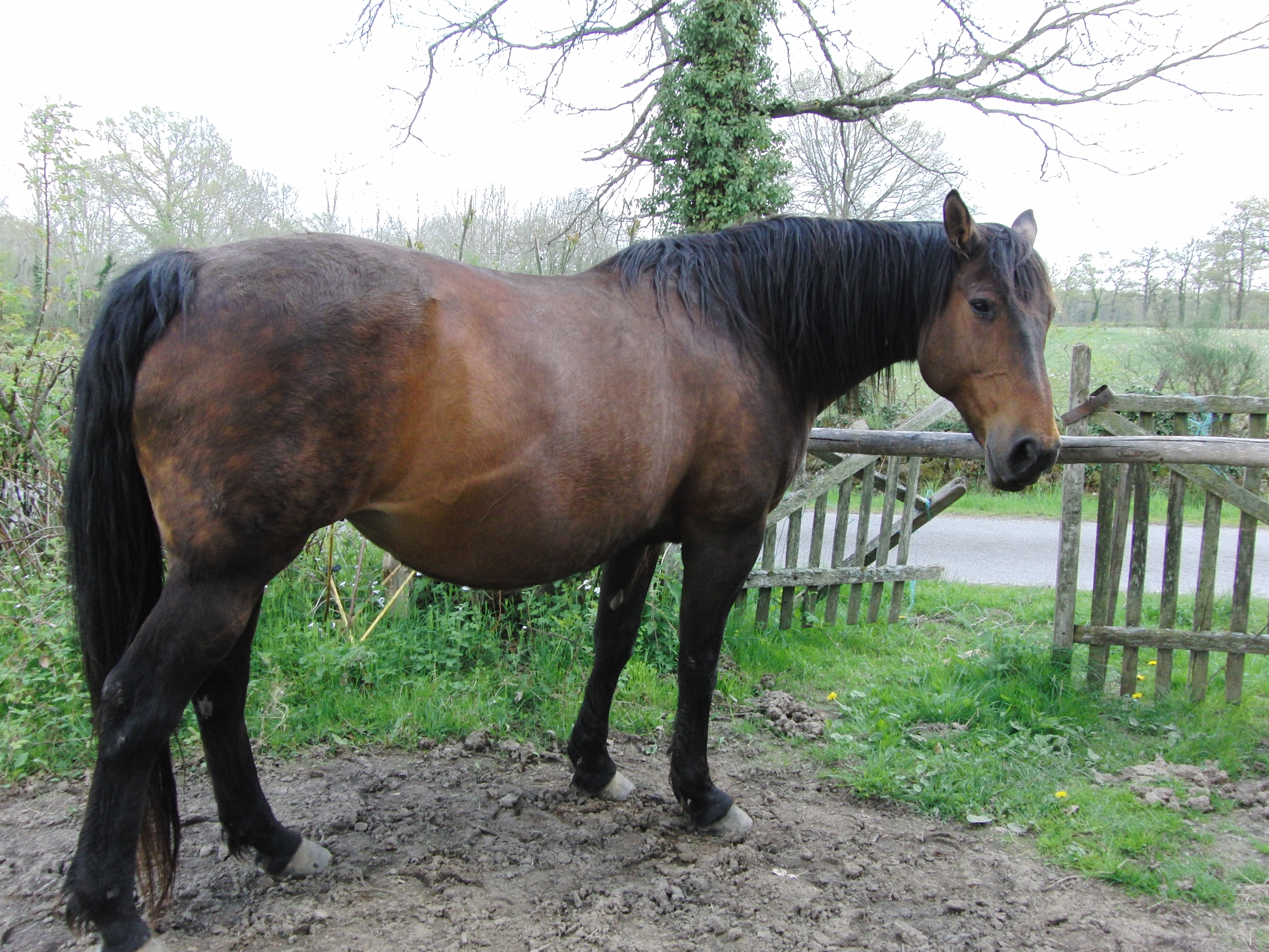 Selle français broodmare, Creuse, France